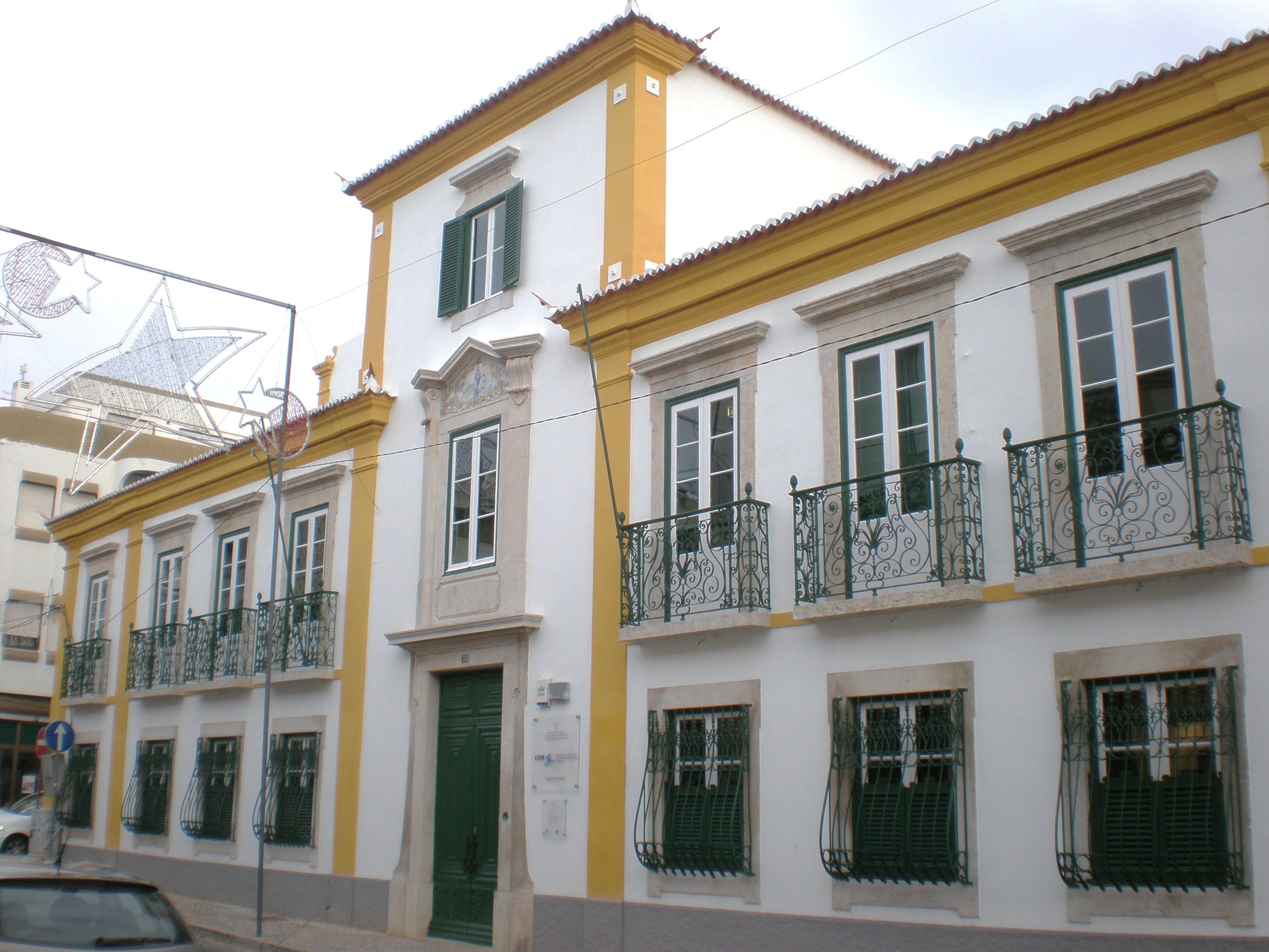 Doglioni Palace/ Cúmane Palace, Faro, Portugal